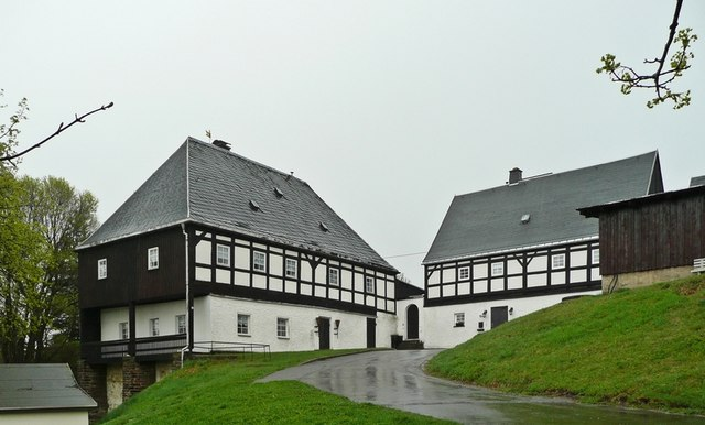 Brüderwiese: former mansion of the ironworks.